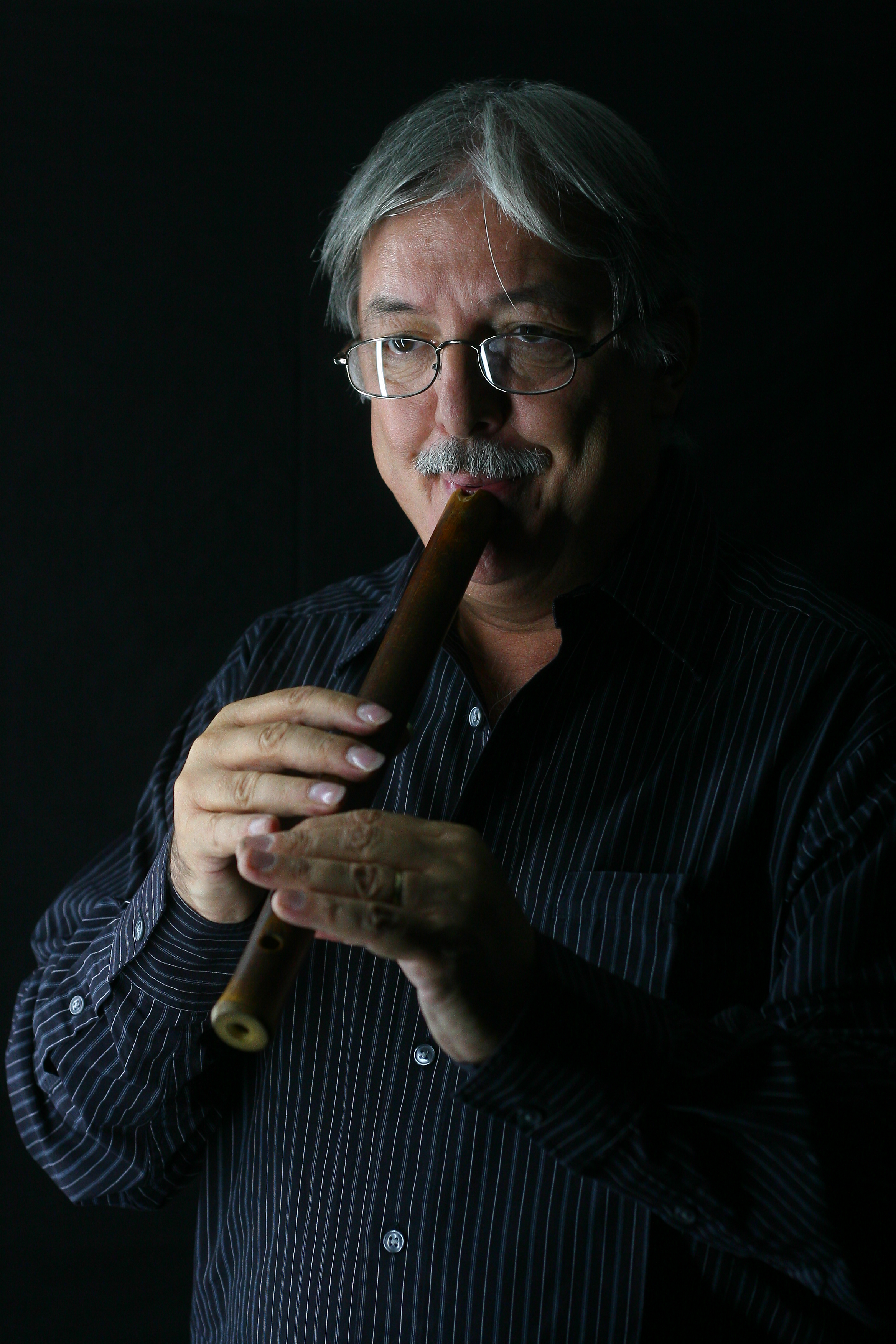 Marcelo Coulon Larrañaga